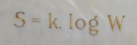 Grave of Ludwig Boltzmann, physicist, on Zentralfriedhof (Central Cemetery), Vienna, Austria